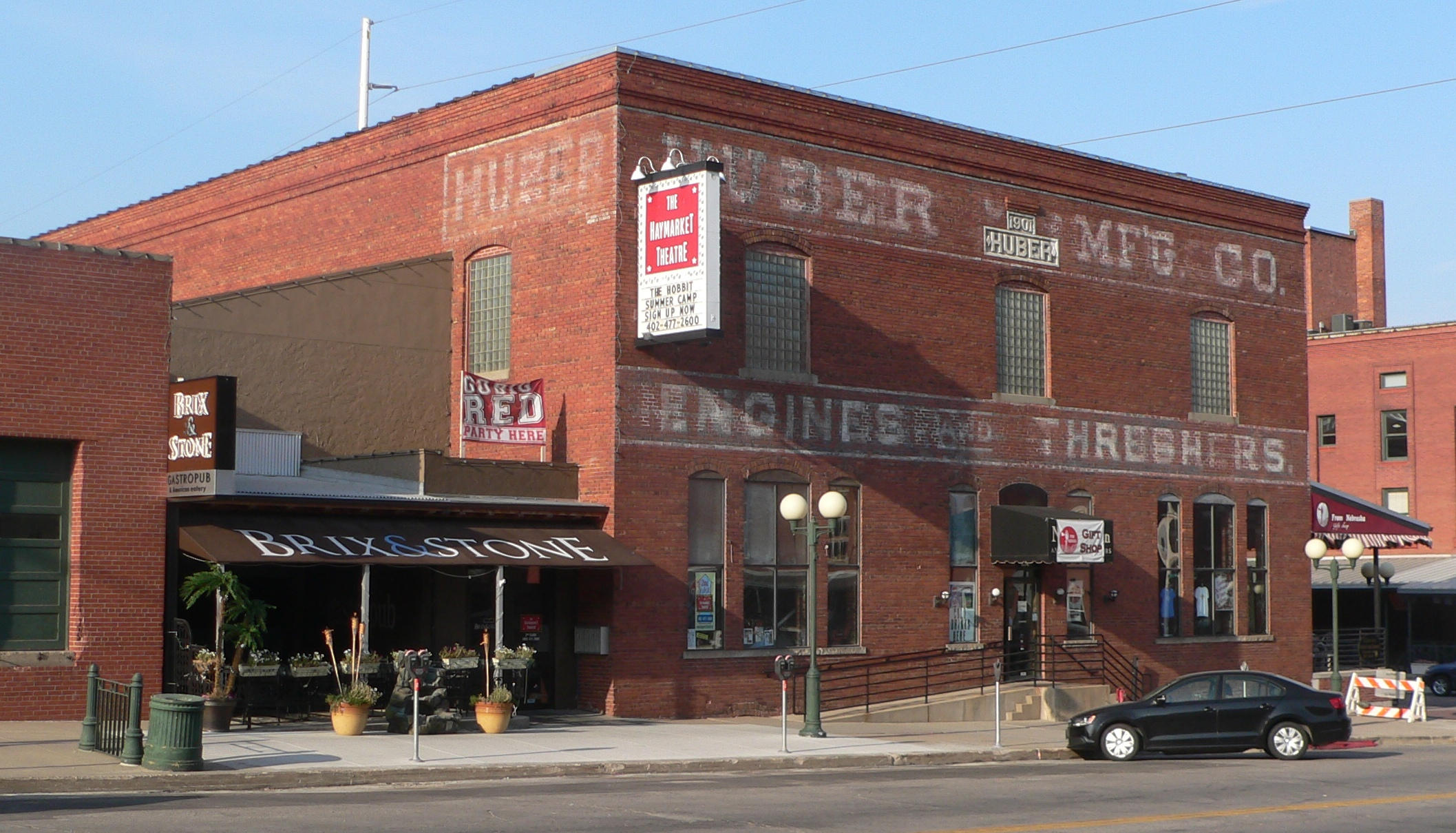 Haymarket District in Lincoln, Nebraska: Huber building, located at southeast corner of 8th and Q Streets; seen from the northeast, looking across Q.